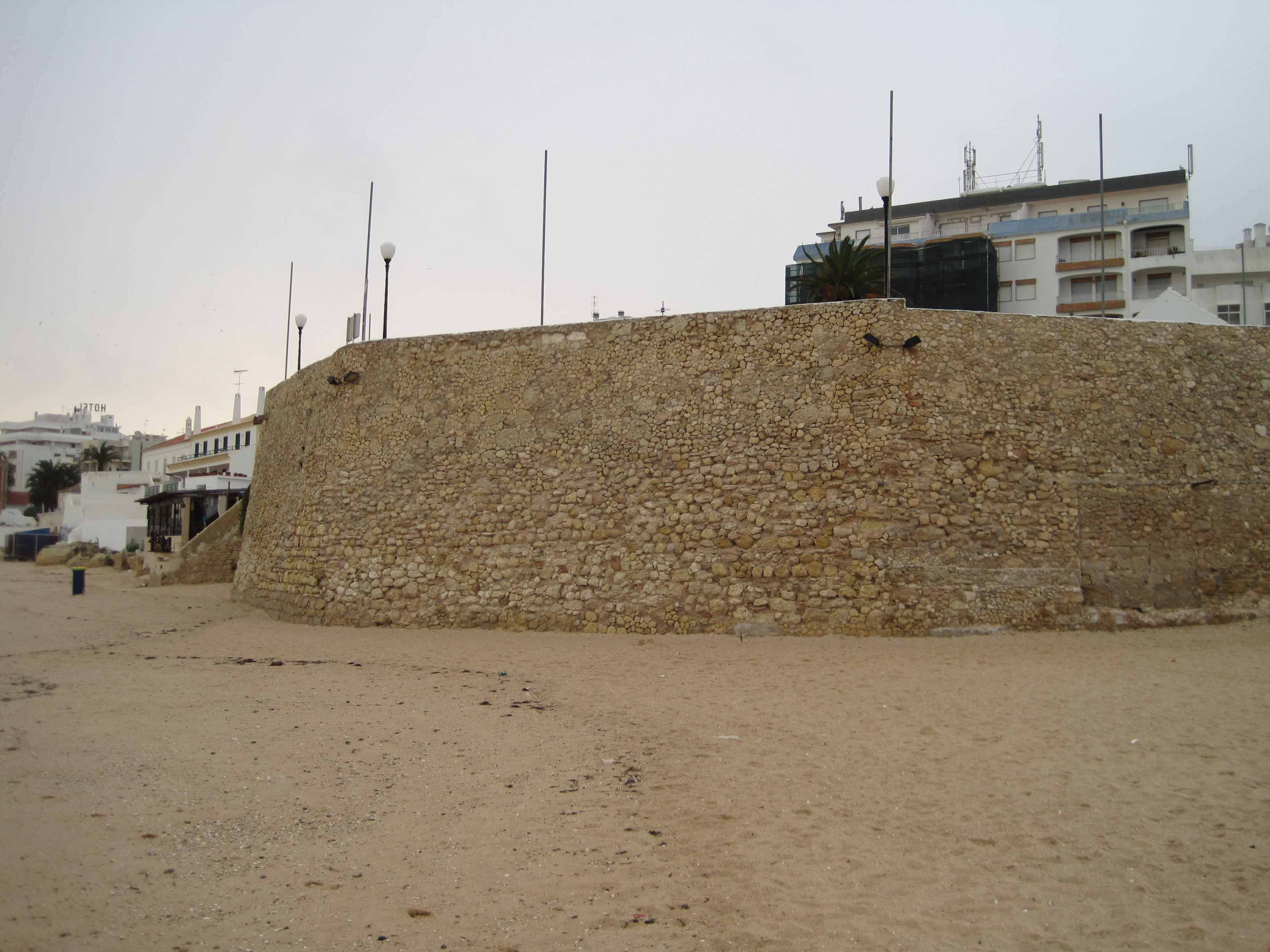 Fortaleza de Armação de Pera